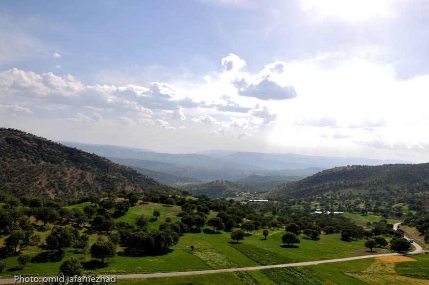 Nature of Sisakht city.